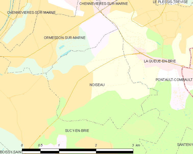 Map of French municipality Noiseau